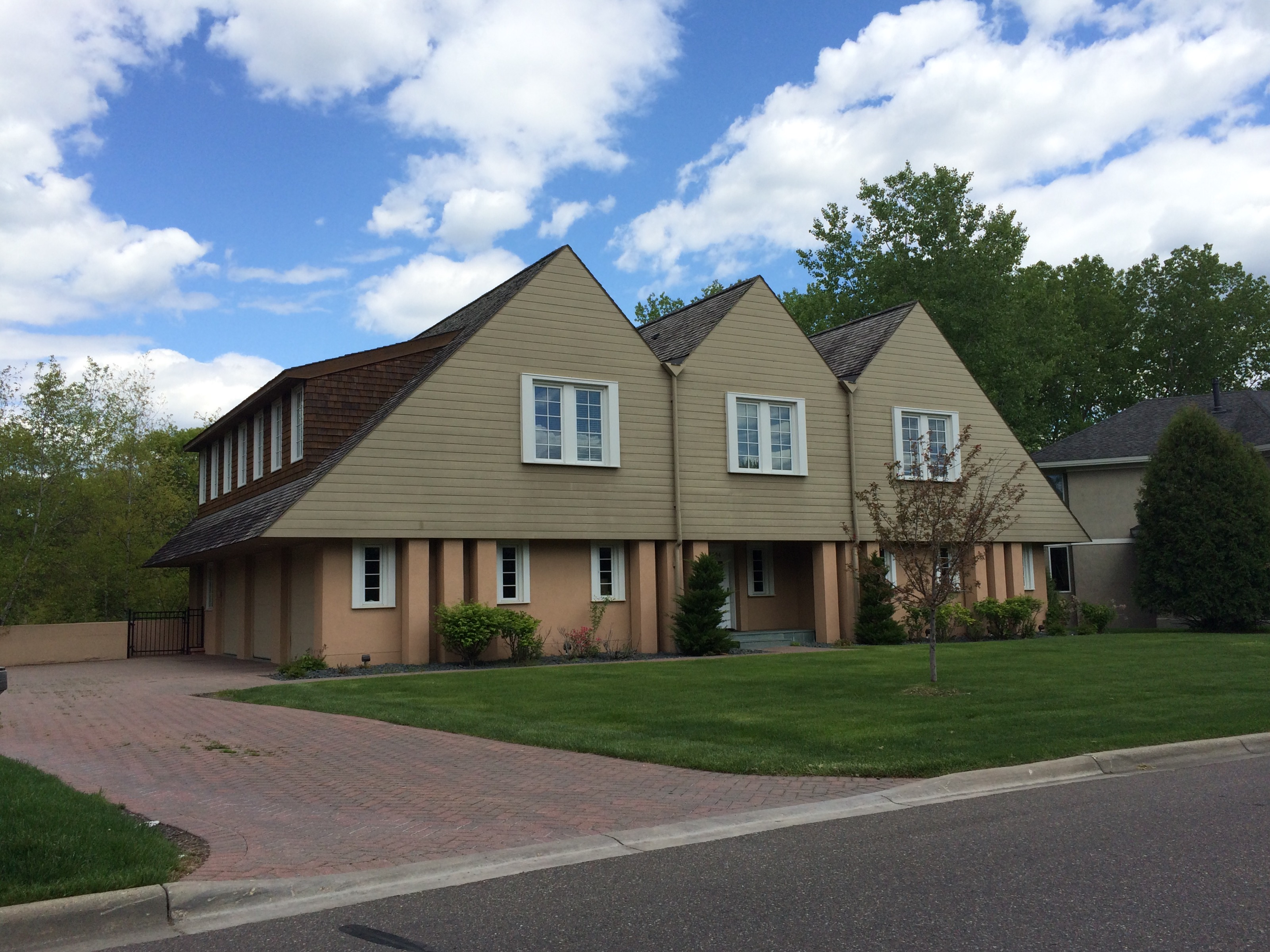 Cedar Gables House, Minnetonka, Minnesota. By Michael Graves, 1998.